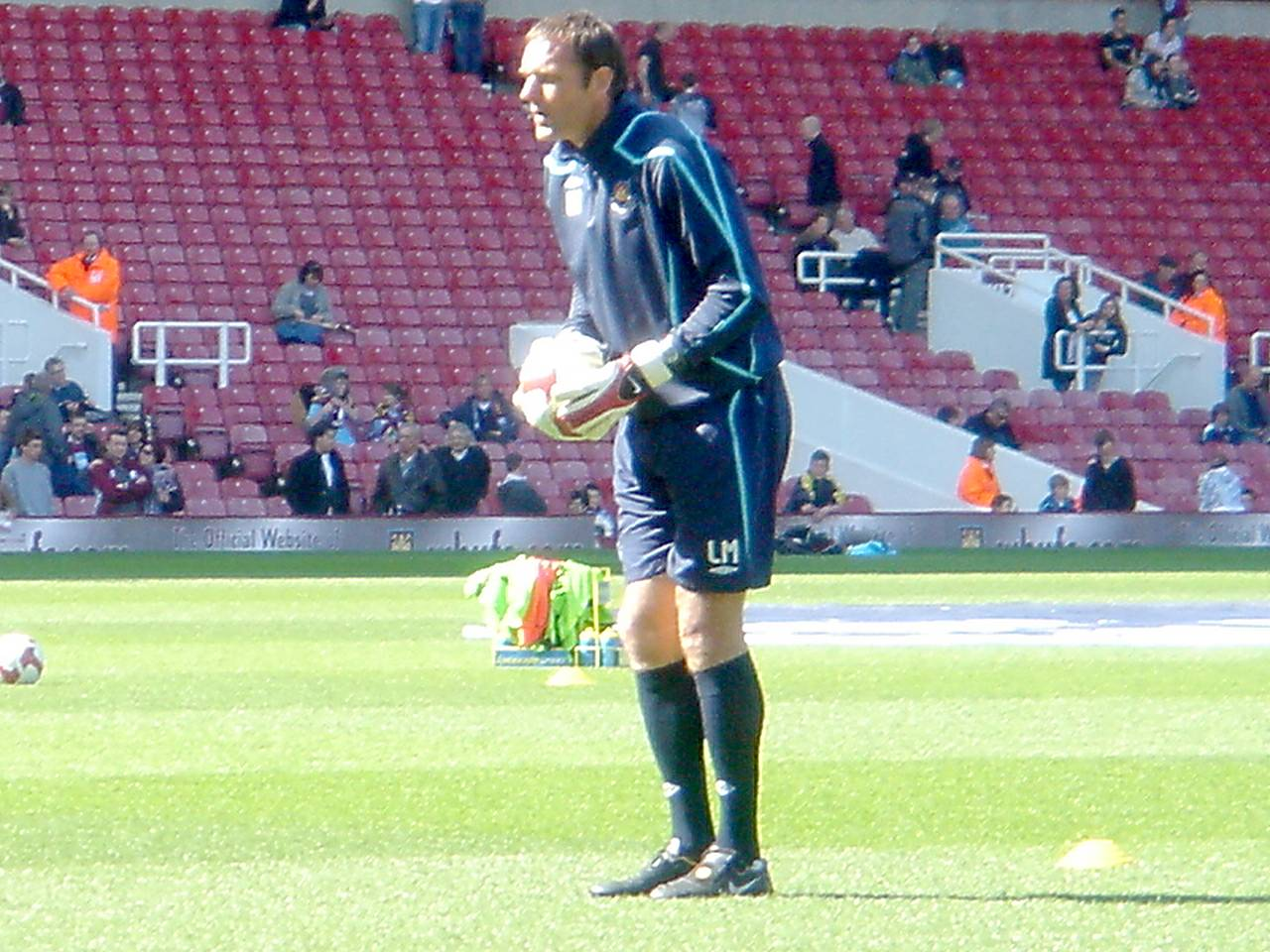 West Ham's goalkeeping trainer, Luděk Mikloško in pre-match training at Upton Park on 4/4/9